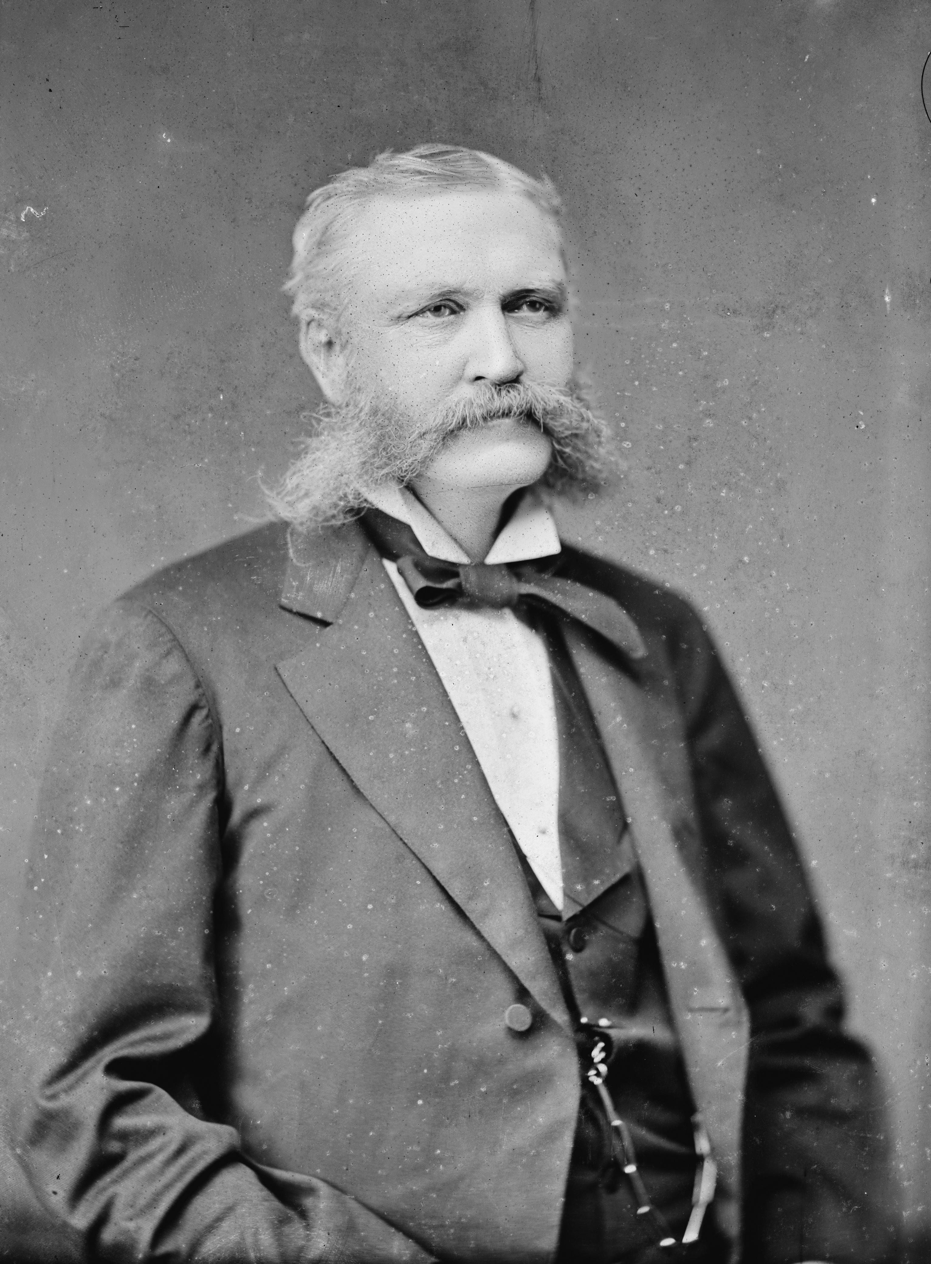 Charles H. Adams. Library of Congress description: "Adams, Hon. C.H. of NY"